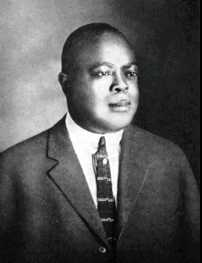 Photo portrait of Joe "King" Oliver